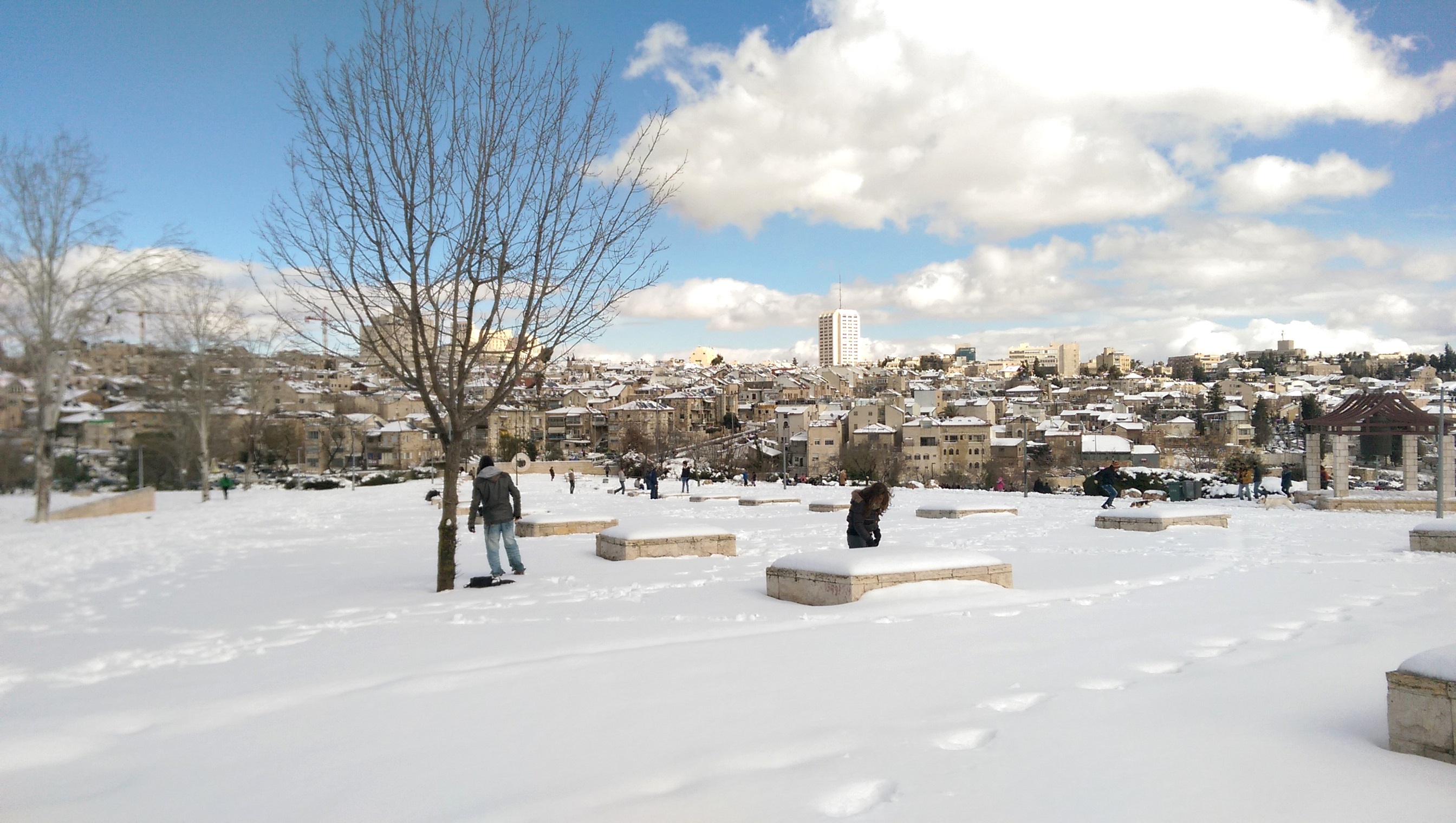 View of the Nachlaot neighbourhood under the snow rom Sacher Park, February 2015